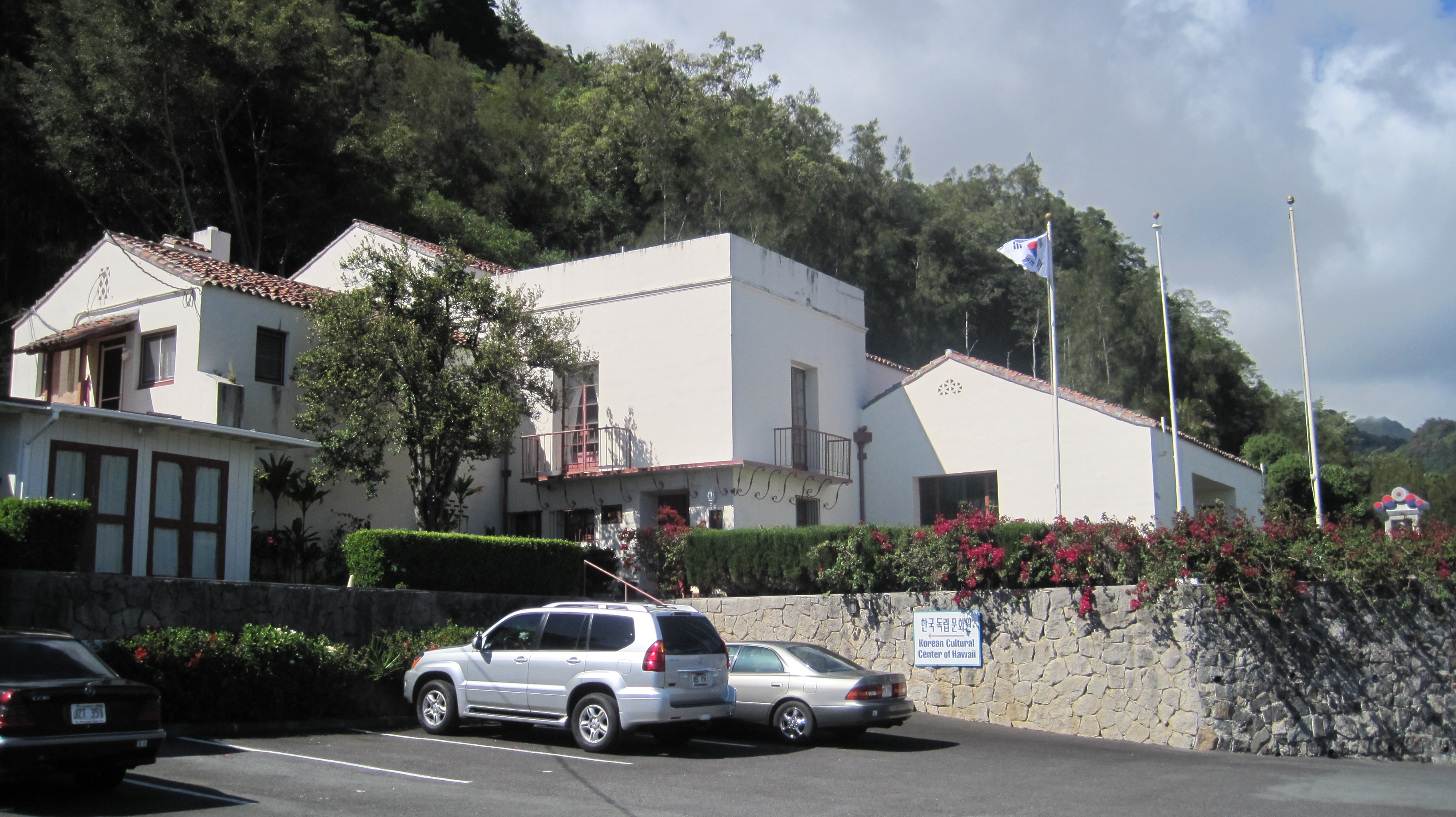 George de S. Canavarro House, 2756 Rooke Ave., Honolulu, Hawaii, on National Register of Historic Places, now a Korean Cultural Center